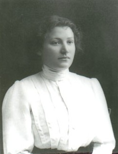 Sarah Aaronsohn